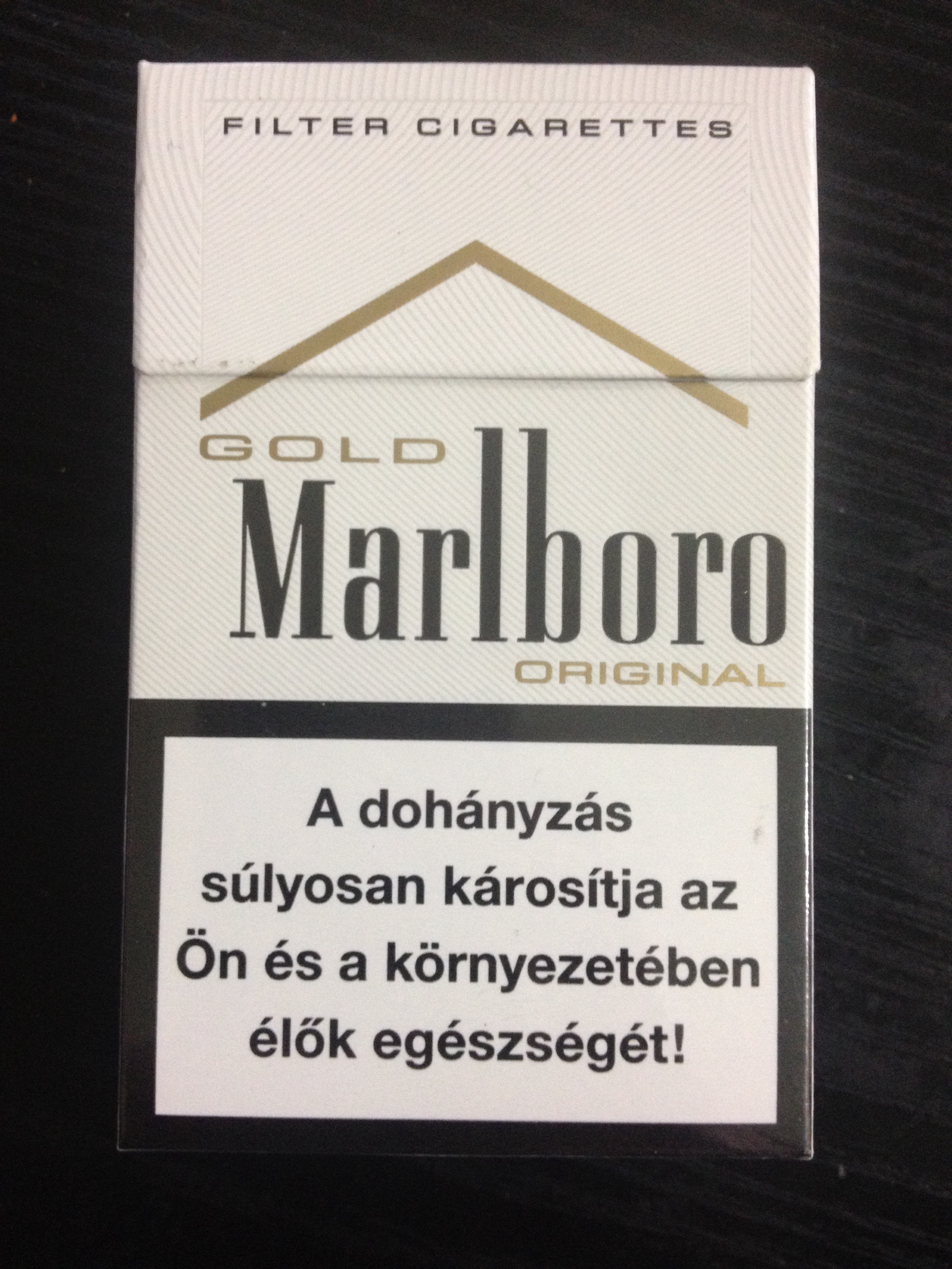 Marlboro: men always remember love because of romance only!